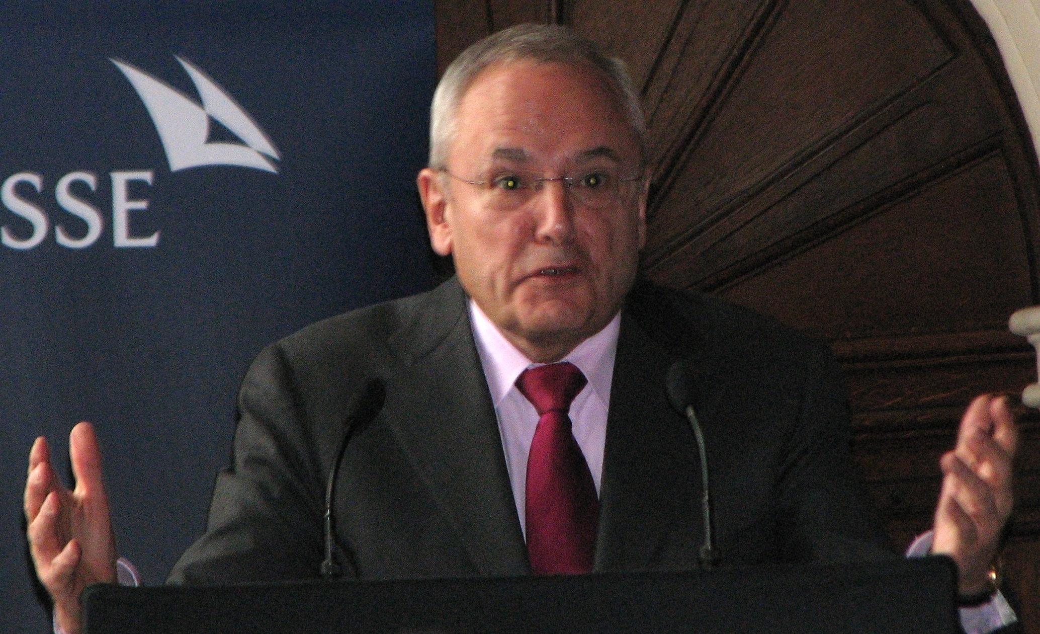 Jacques Barrot at FBSA Conference, Hatfield House, March 2008